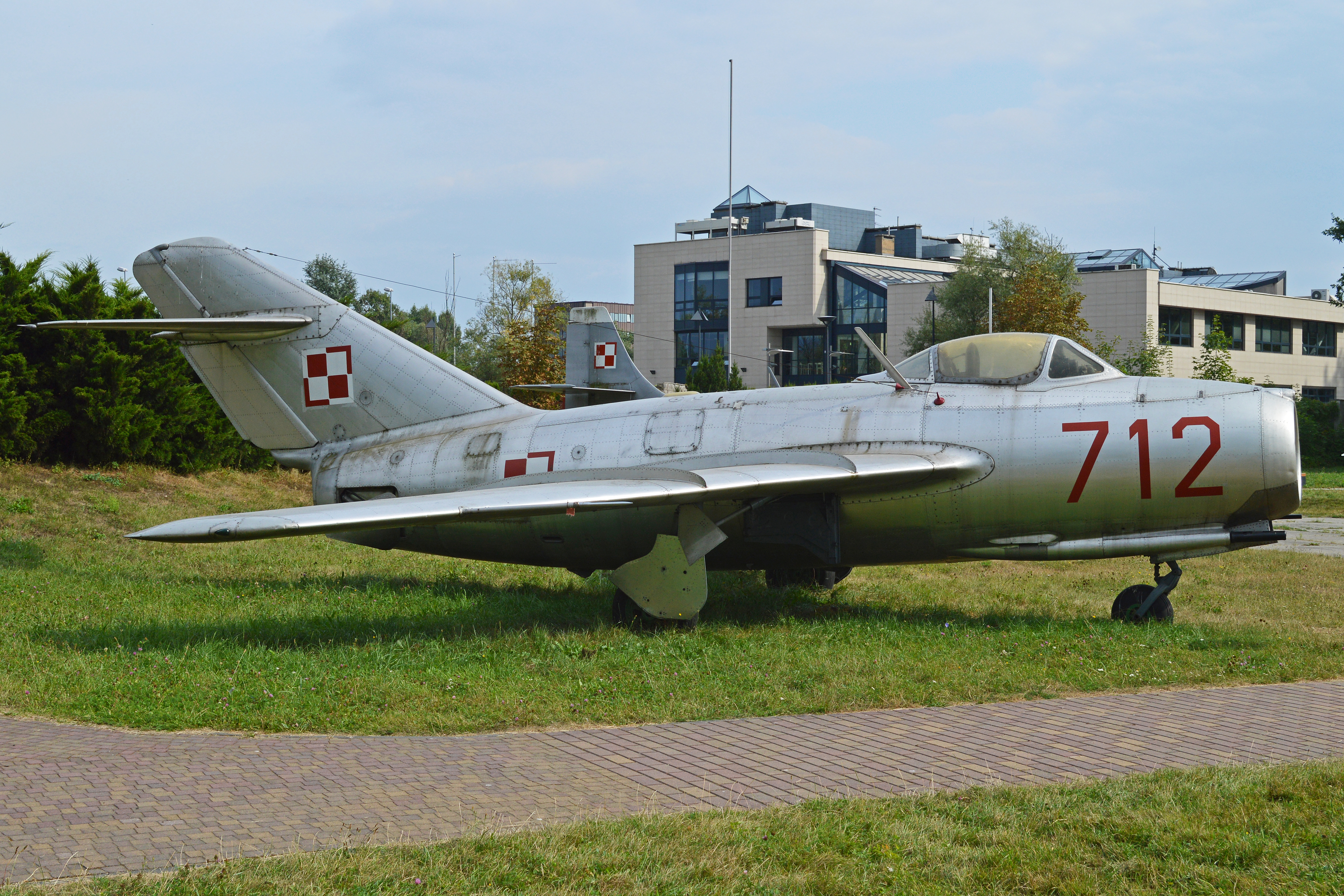 c/n 1A-07012. The Lim-1 was a basic MiG-15, built under license in Poland. On outside display at the Muzeum Lotnictwa Polskiego. Krakow, Poland. 23-8-2013